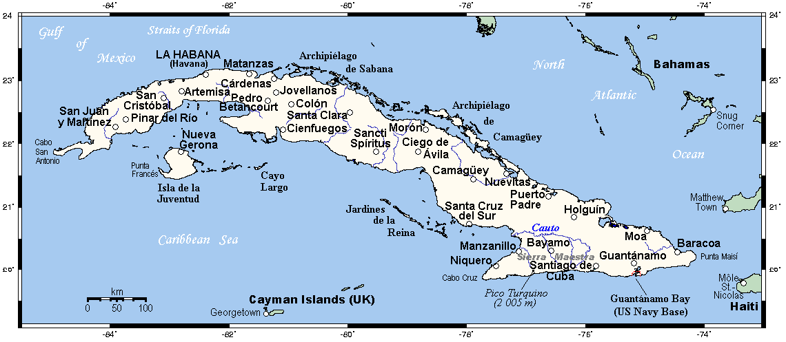 Map of Cuba showing main towns, highest point, and other relevant information.